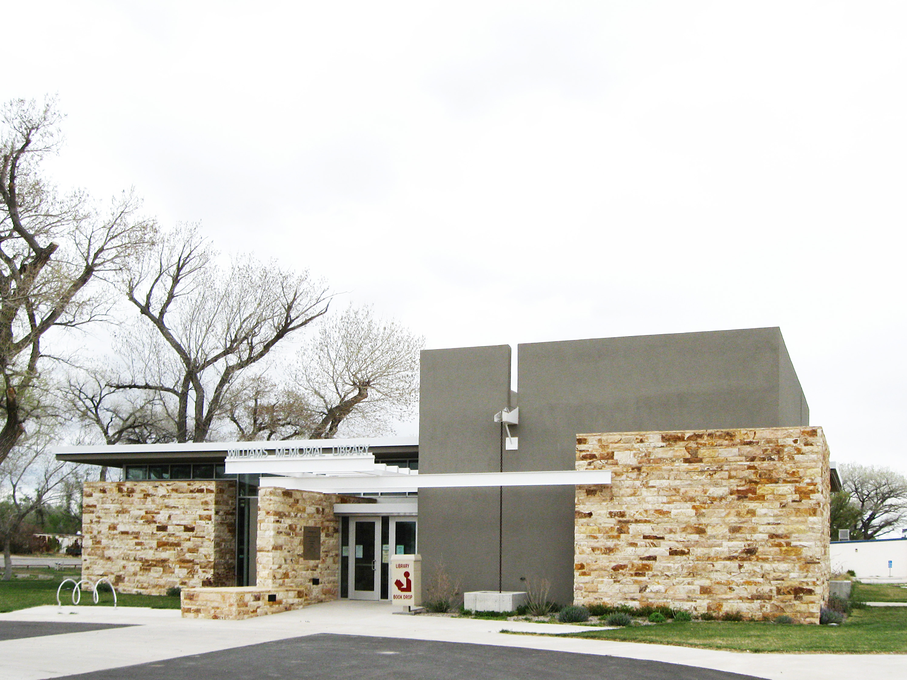 Williams Memorial Library in Estancia, New Mexico, located at 600 South Tenth Street in Arthur Park.